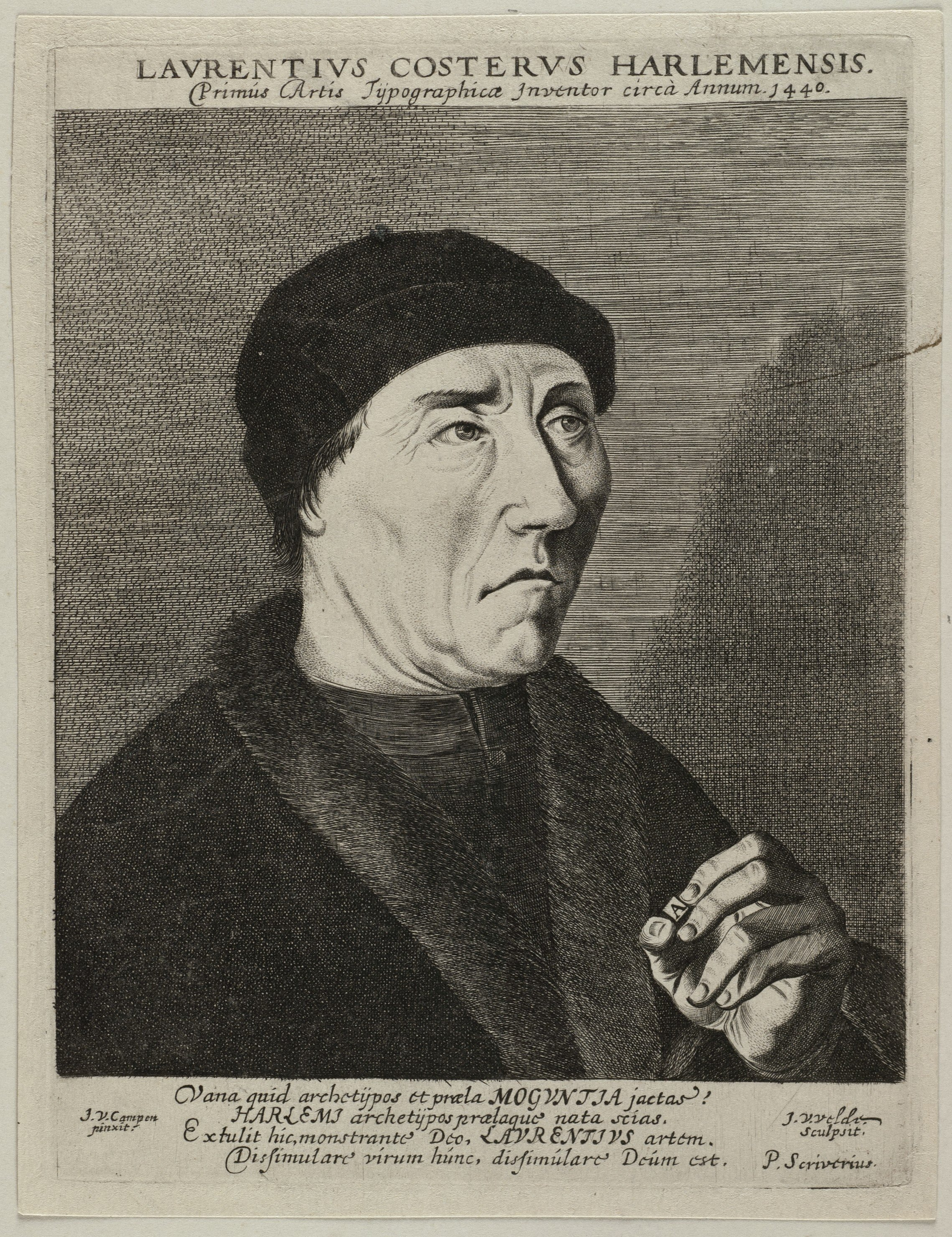 Portrait of Laurens Janszoon Coster (c.1370 - c.1440)